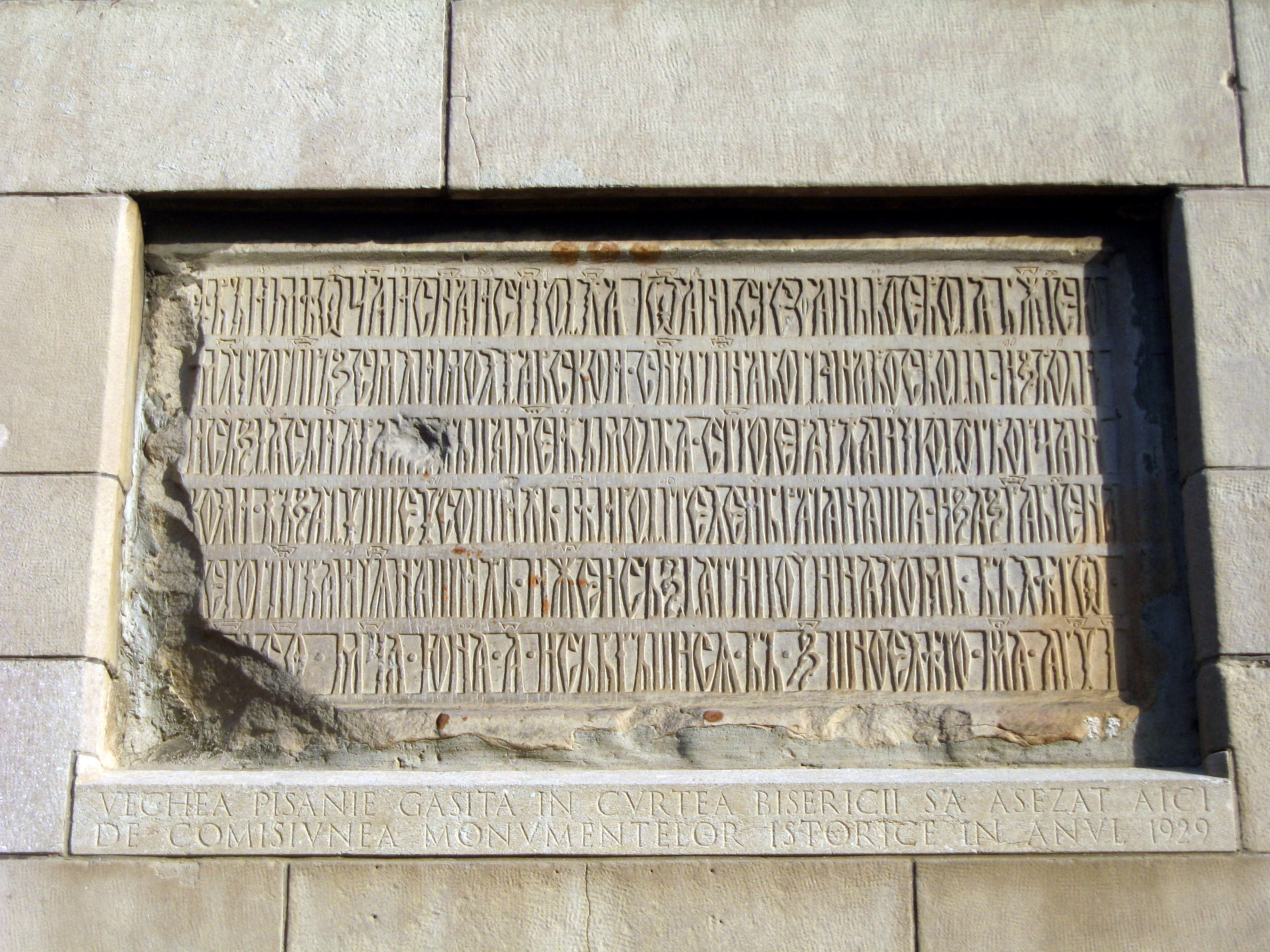 Biserica Sf. Nicolae Domnesc din Iași, România